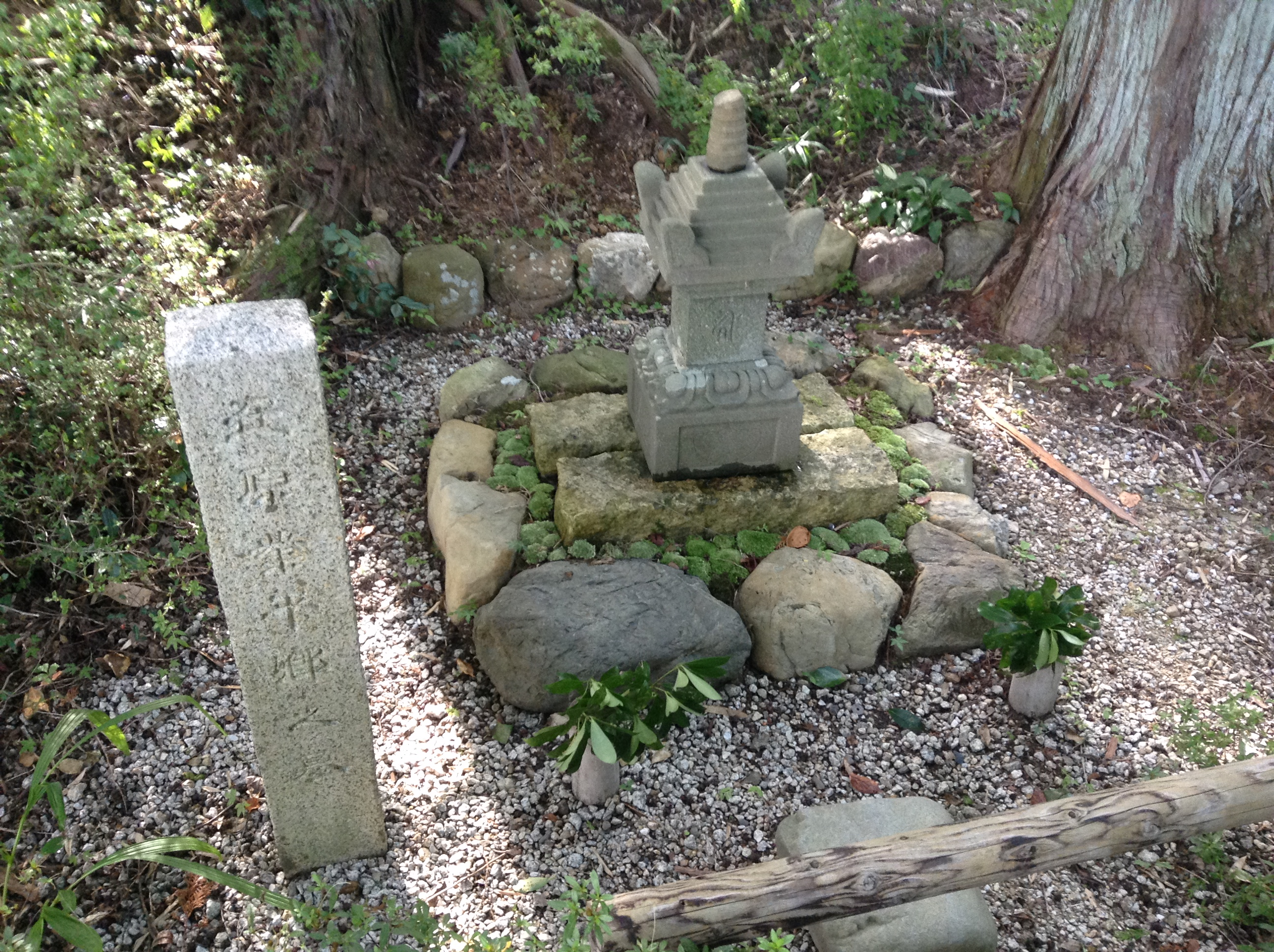 One traditional grave site of the Japanese poet Ariwara no Narihira, in Jūrin-ji in Kyoto.